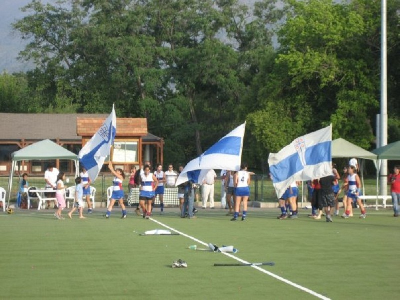 Campeones!!